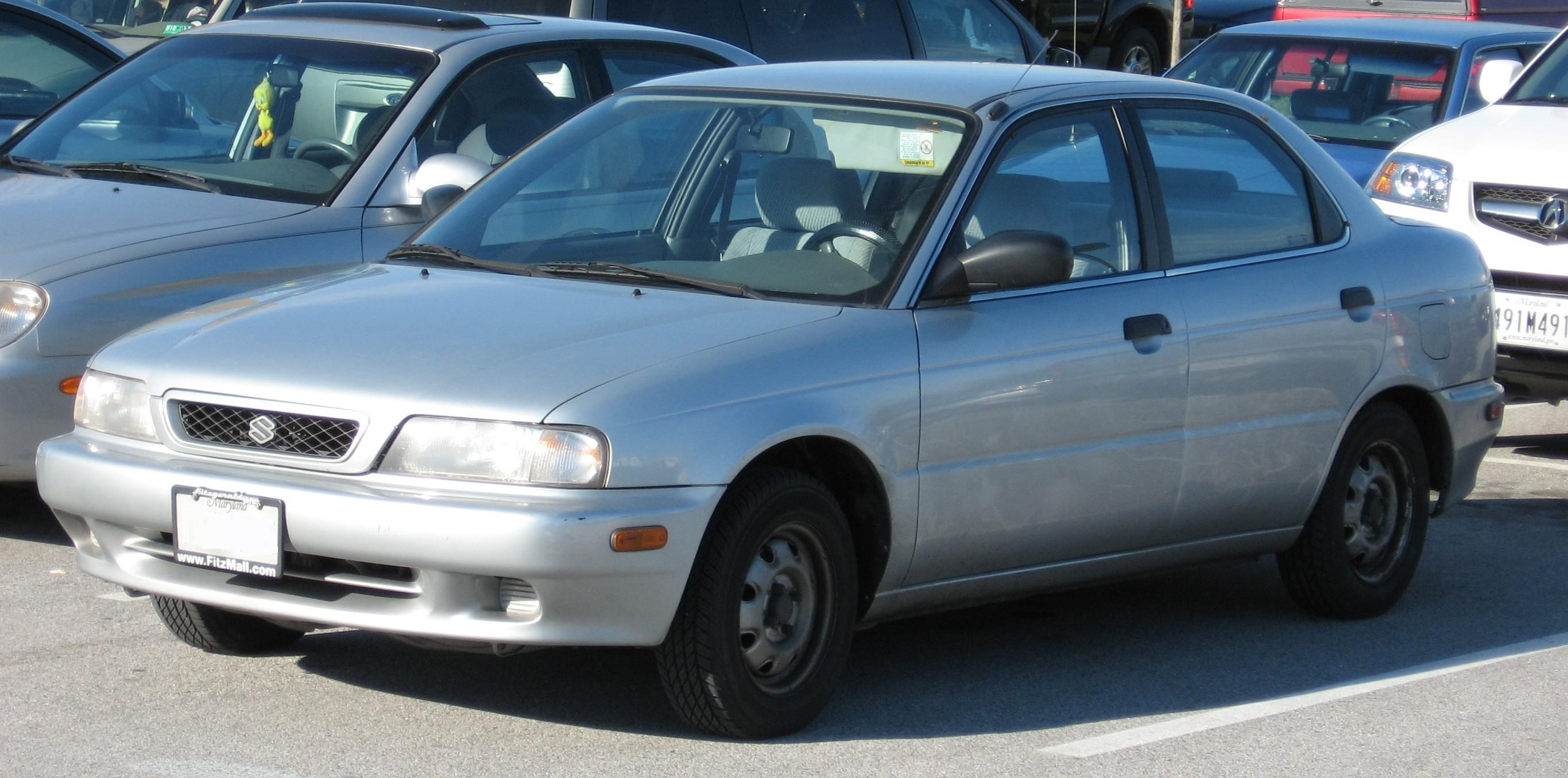 1995-1998 Suzuki Esteem photographed in USA.